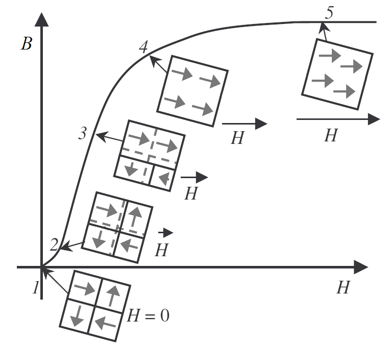 Magnetisation curve (BH curve) with magnetic domains.